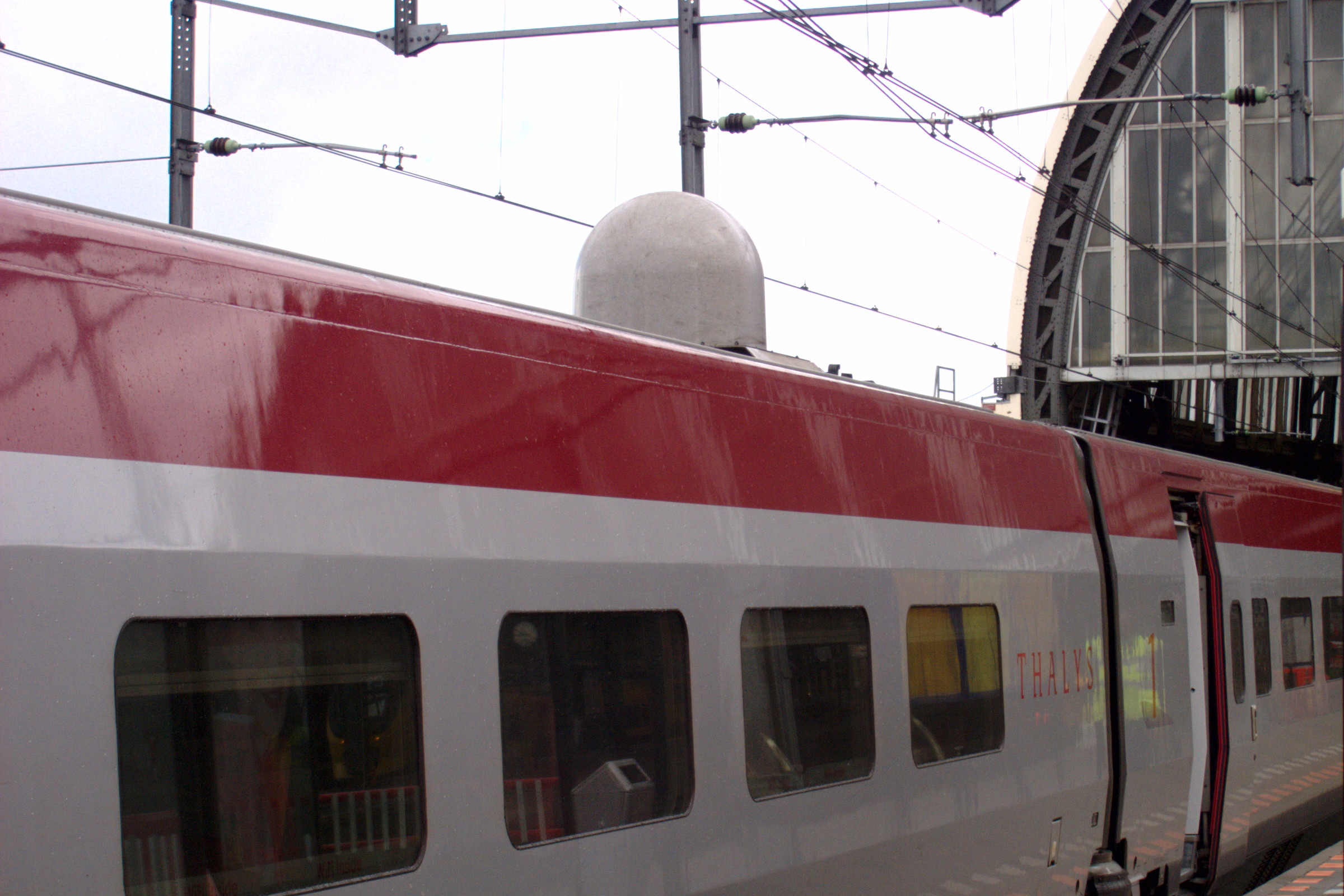 Satellite radome on Thalys high-speed train.